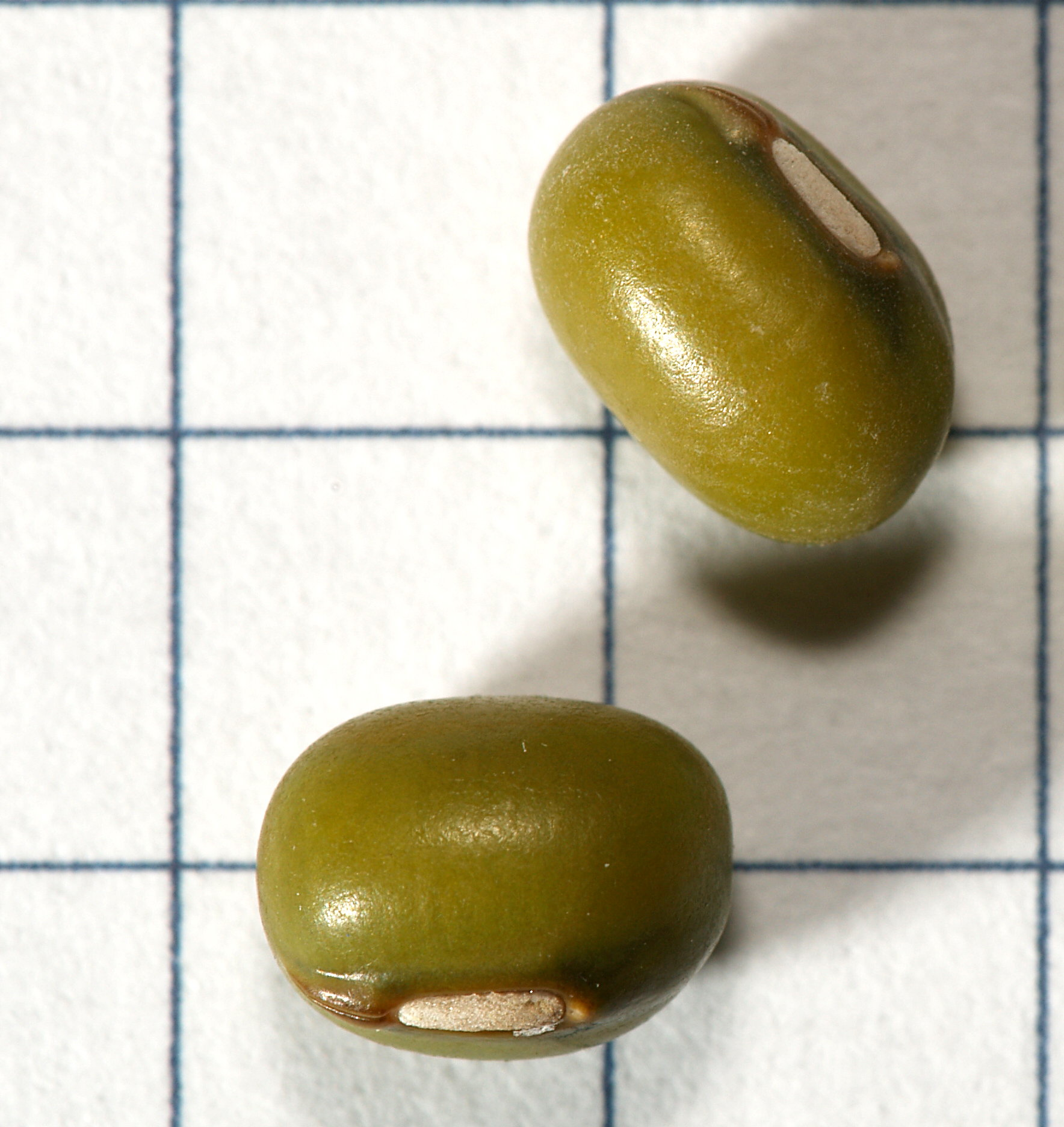 seeds of Vigna radiata. Squares have a length of 5 mm.